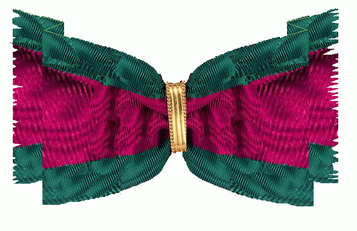 Erinnerungszeichen für die Ritter vom Goldenen Sporn Ribbon